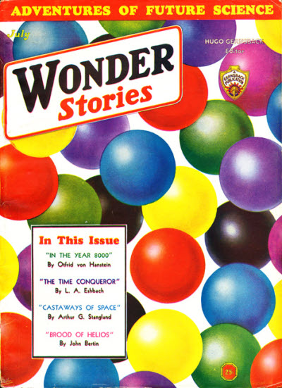 Cover of Wonder Stories, July 1932